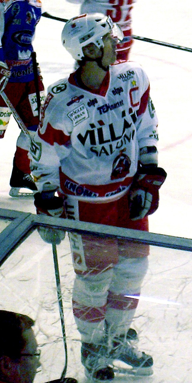 HC Bolzano captain Rolland "Rolly" Ramoser; photo taken during the match between HCB and SV Renon Ritten